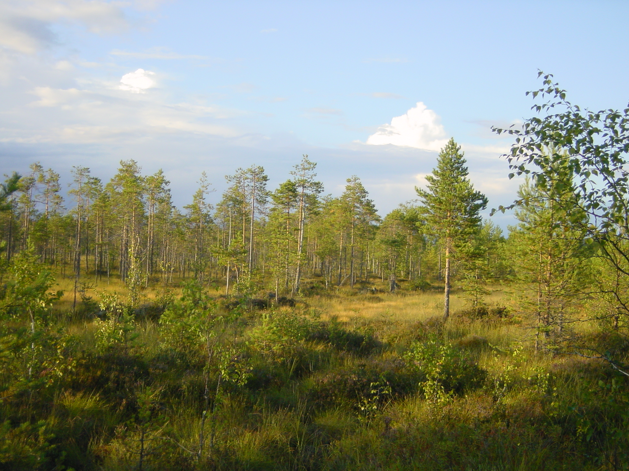 Swampy forrest in the Patvinsuo National Park in Finland.